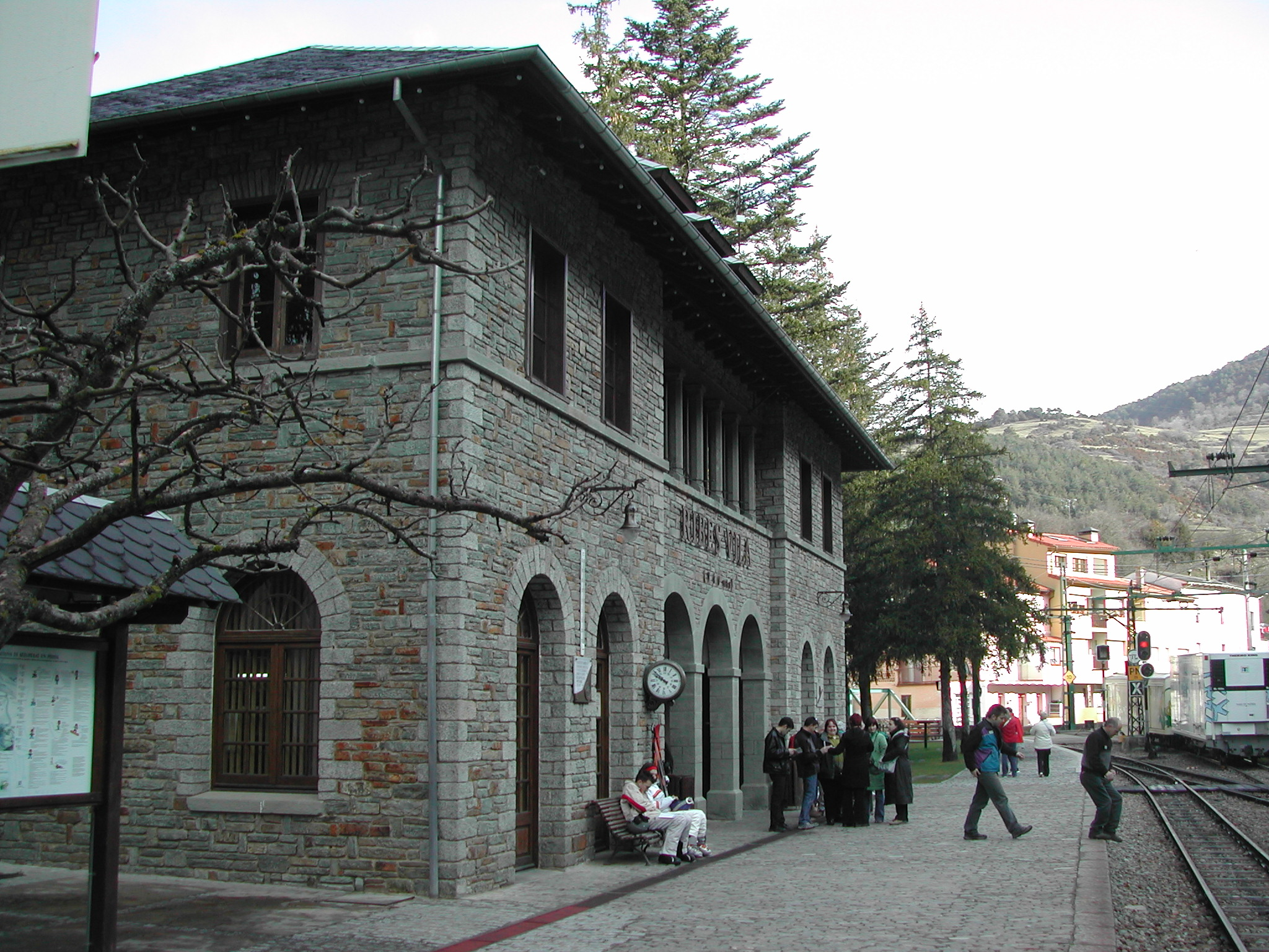 Ribes Vila station building seen from the platform.